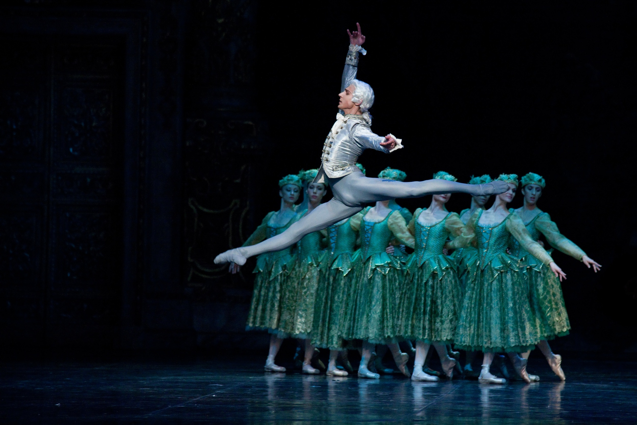 Maksim Woitiul (Prince Désiré), "The Sleeping Beauty" by Yuri Grigorovich after Marius Petipa, Polish National Ballet